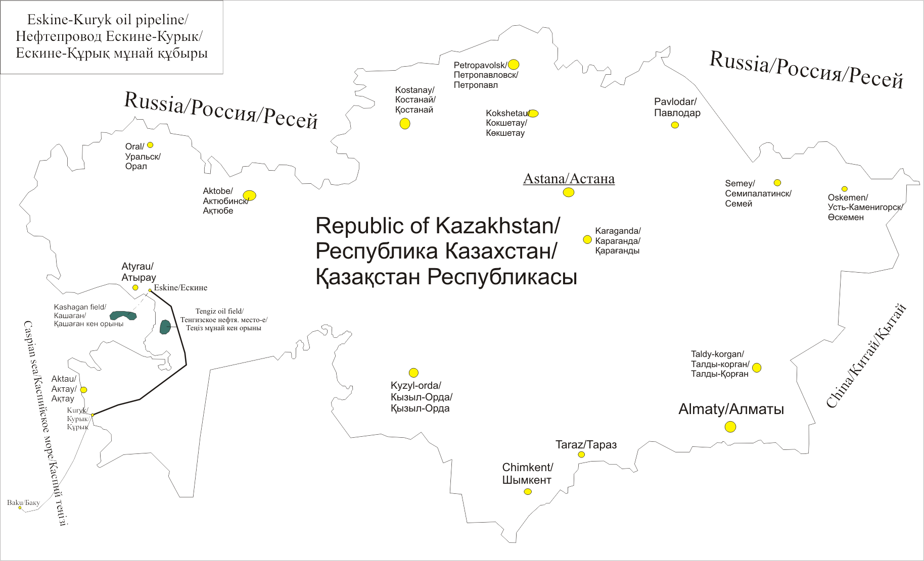 Eskine-Kuryk pipeline map